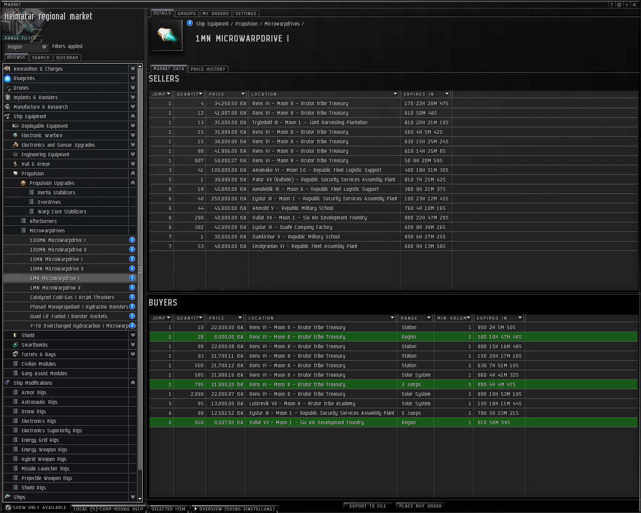 Screenshot of the in-game market browser